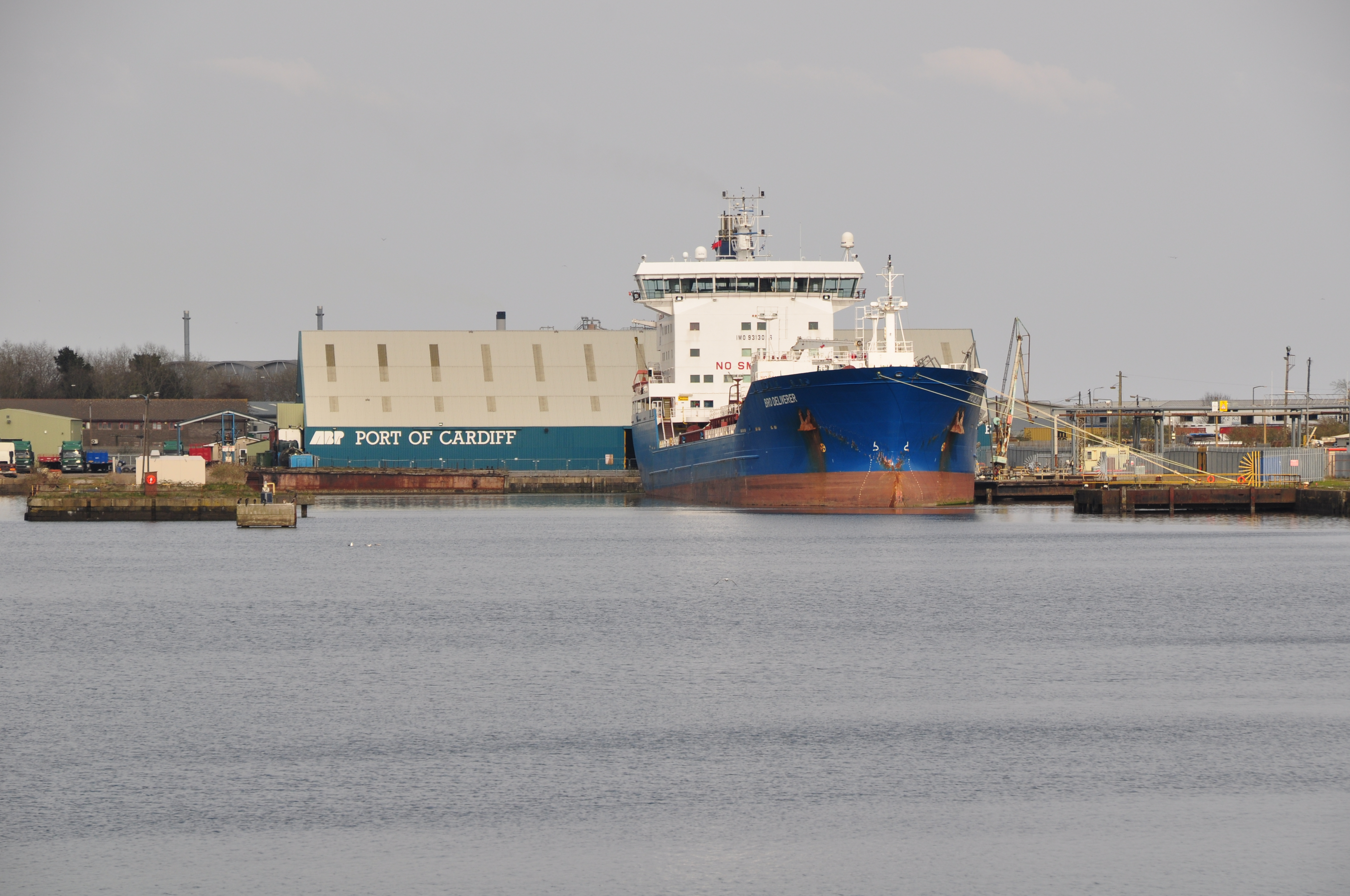 Cardiff : Roath Dock. Looking across Roath Dock and towards the Bro Deliverer.